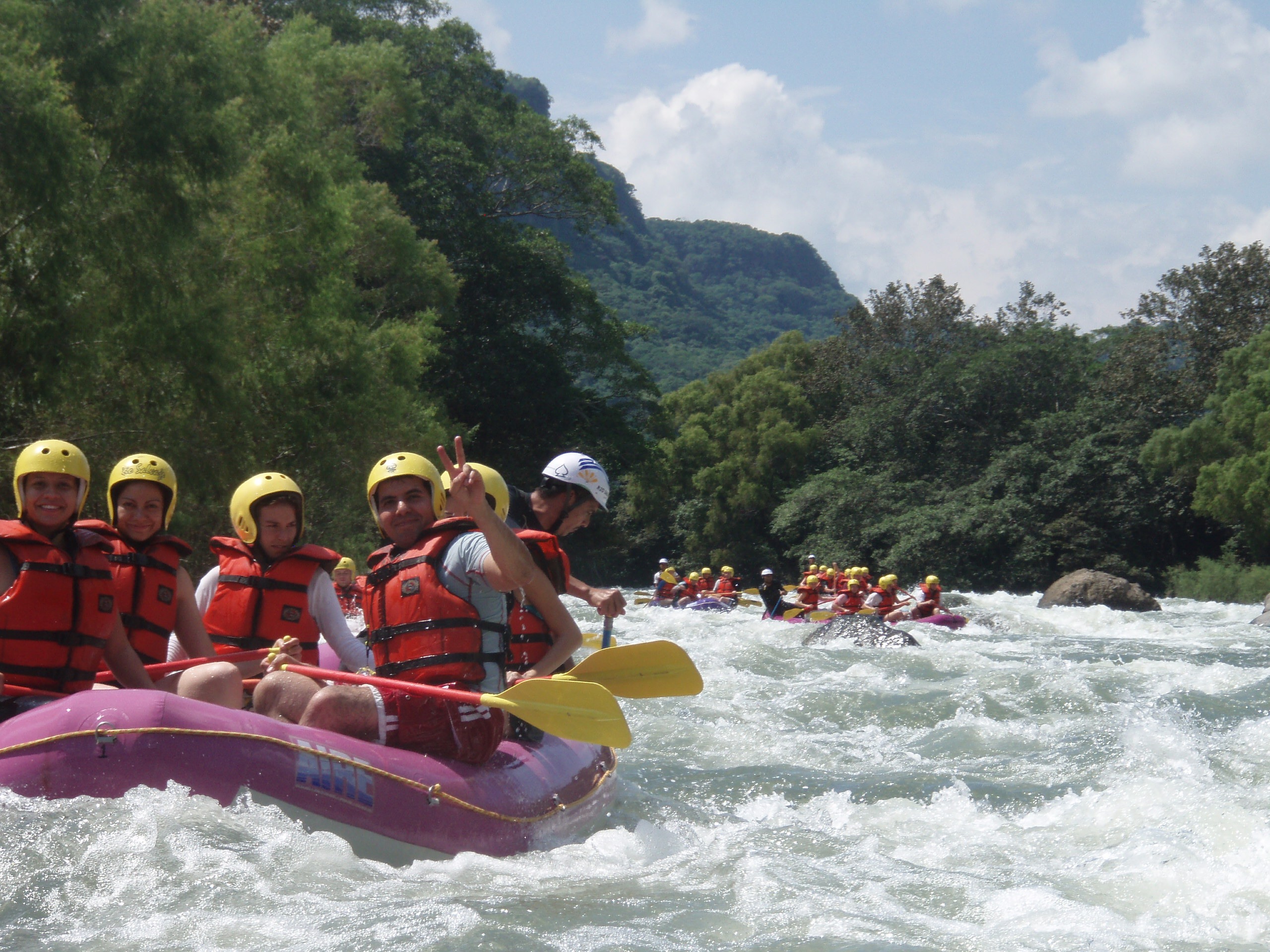 Rafting in Rio Salvaje, Jalcomulco, Veracruz, Mexico.